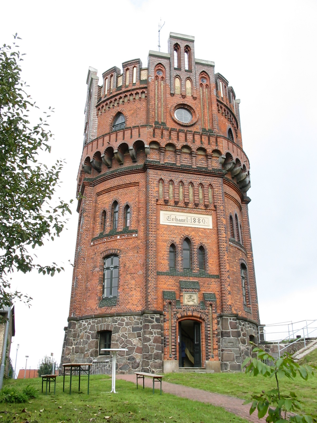 Water tower on the highest natural point of Schwerin in the borough Neumühle